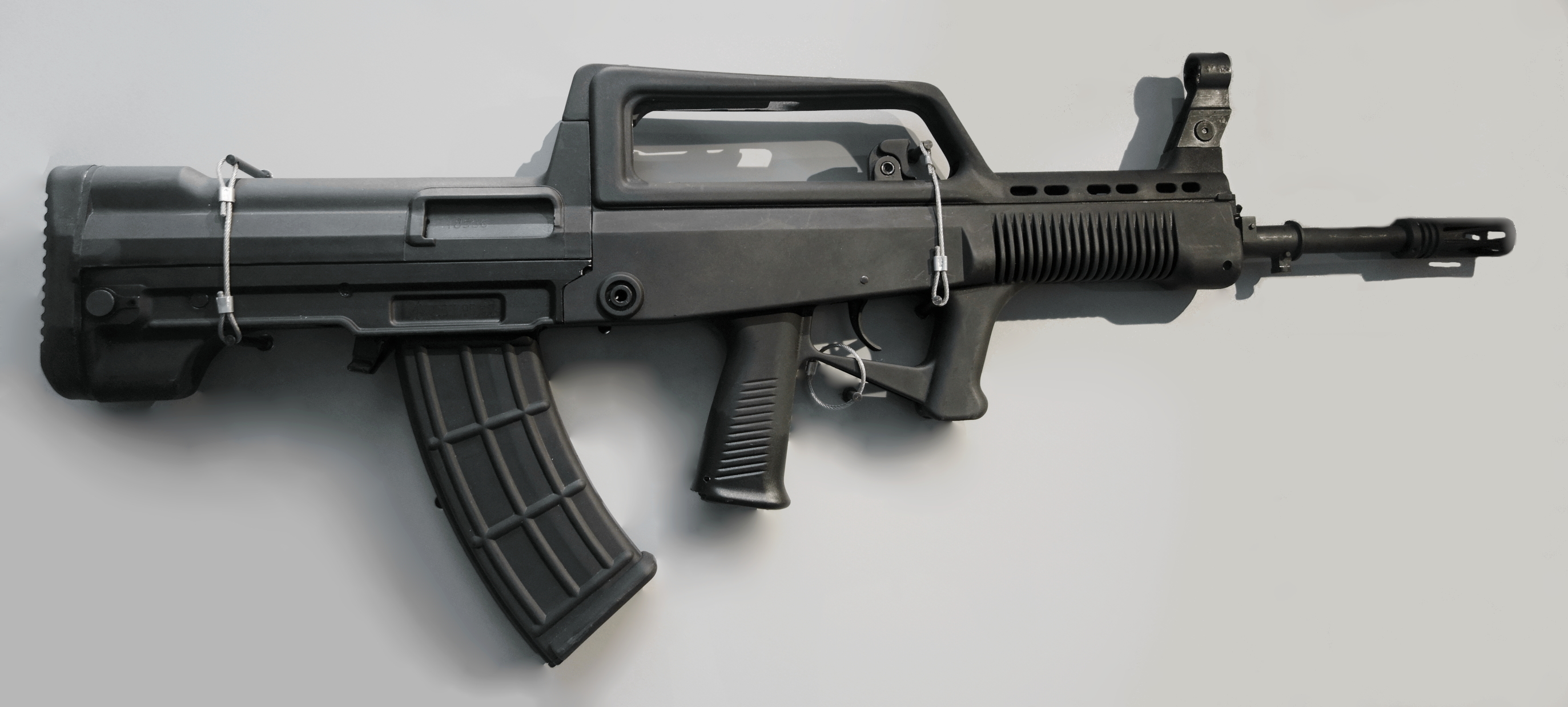 QBZ95 automatic rifle